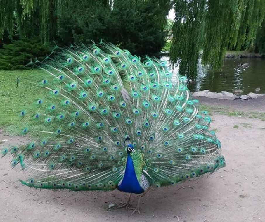 A peacock that fanned its feathers, shook them out, and strutted in circles, seemingly just to show off its beauty.